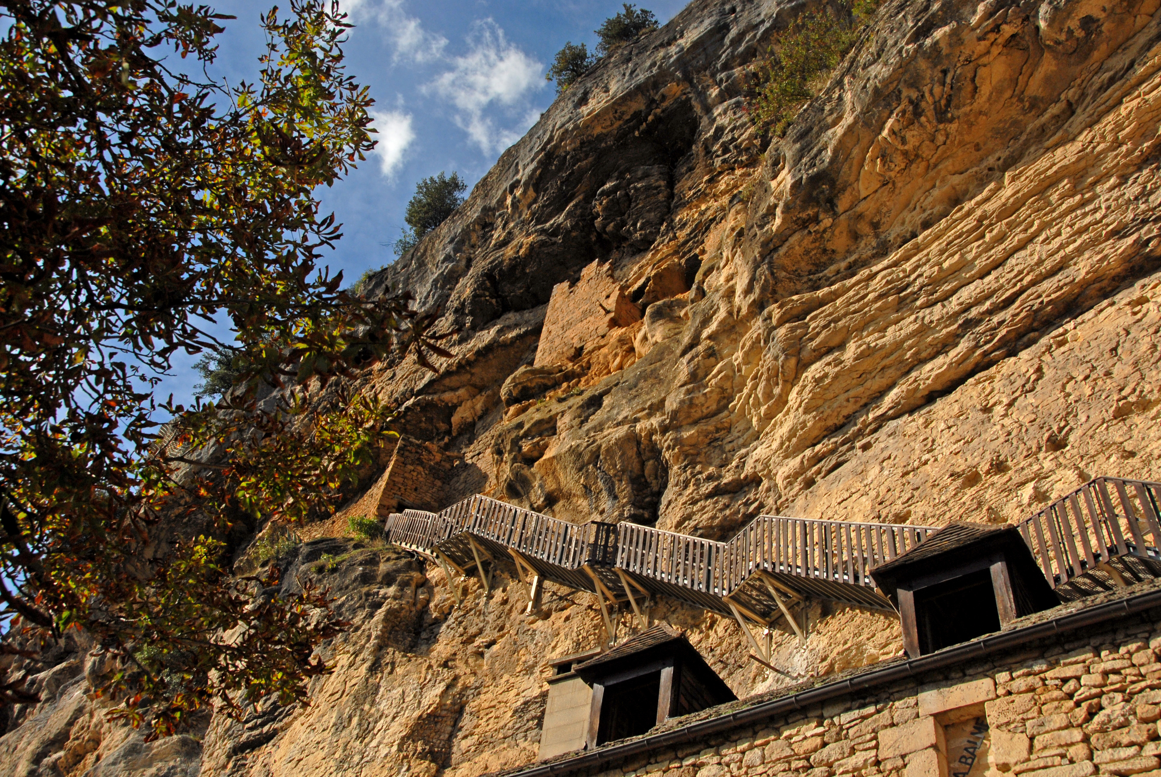 La Roque-Gageac, stairs leading to the fort troglodytique